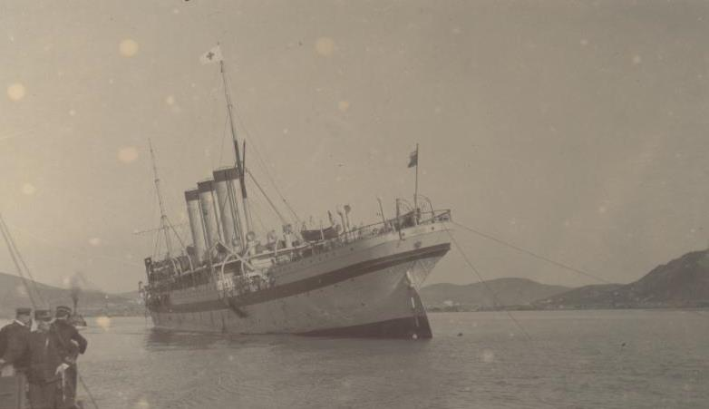 Hospital ship Moskva (former auxiliary cruiser Angara) sunk in the port of Port Arthur (Russian Empire), photographed on January 4 1905 (the day after the Japanese conquested it), as it appeared to Italian Admiral Ernesto Burzagli (1873-1944), Italian naval attaché in Tokio, who sailed from Yokohama (Japan) on a diplomatic mission to Port Arthur, during the Russo-Japanese War. The original picture, scanned by Emiliano Burzagli, belongs to the Private archive of Burzaghi family, Italy.